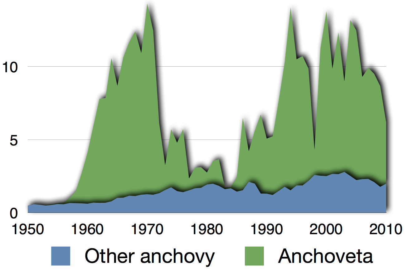 Global capture of all anchovy species in millions of tonnes, 1950–2010, as reported by the FAO. Based on data sourced from the relevant FAO Species Fact Sheets